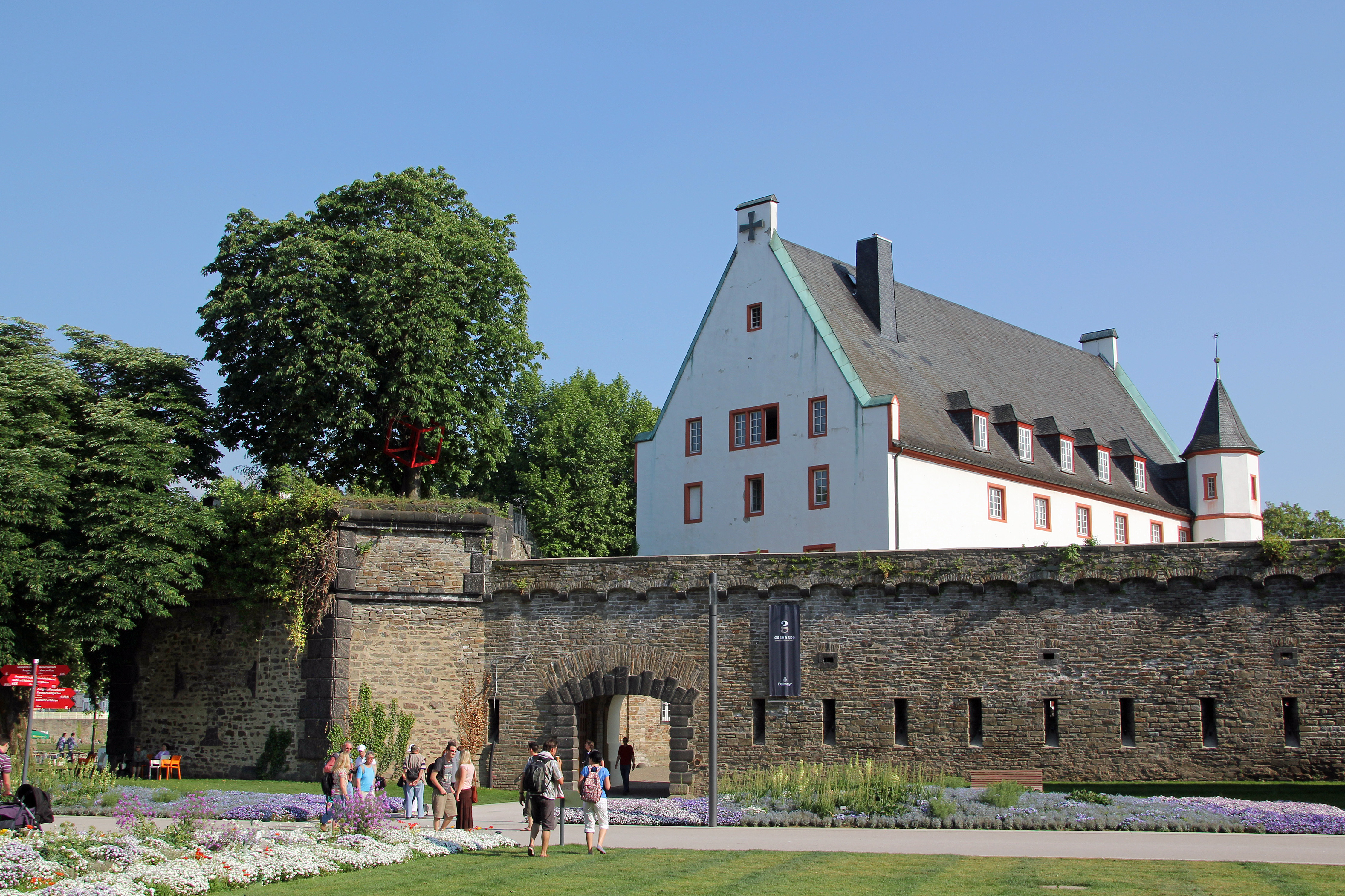 Federal Horticultural Show 2011 in Koblenz - Blumenhof at Deutsches Eck